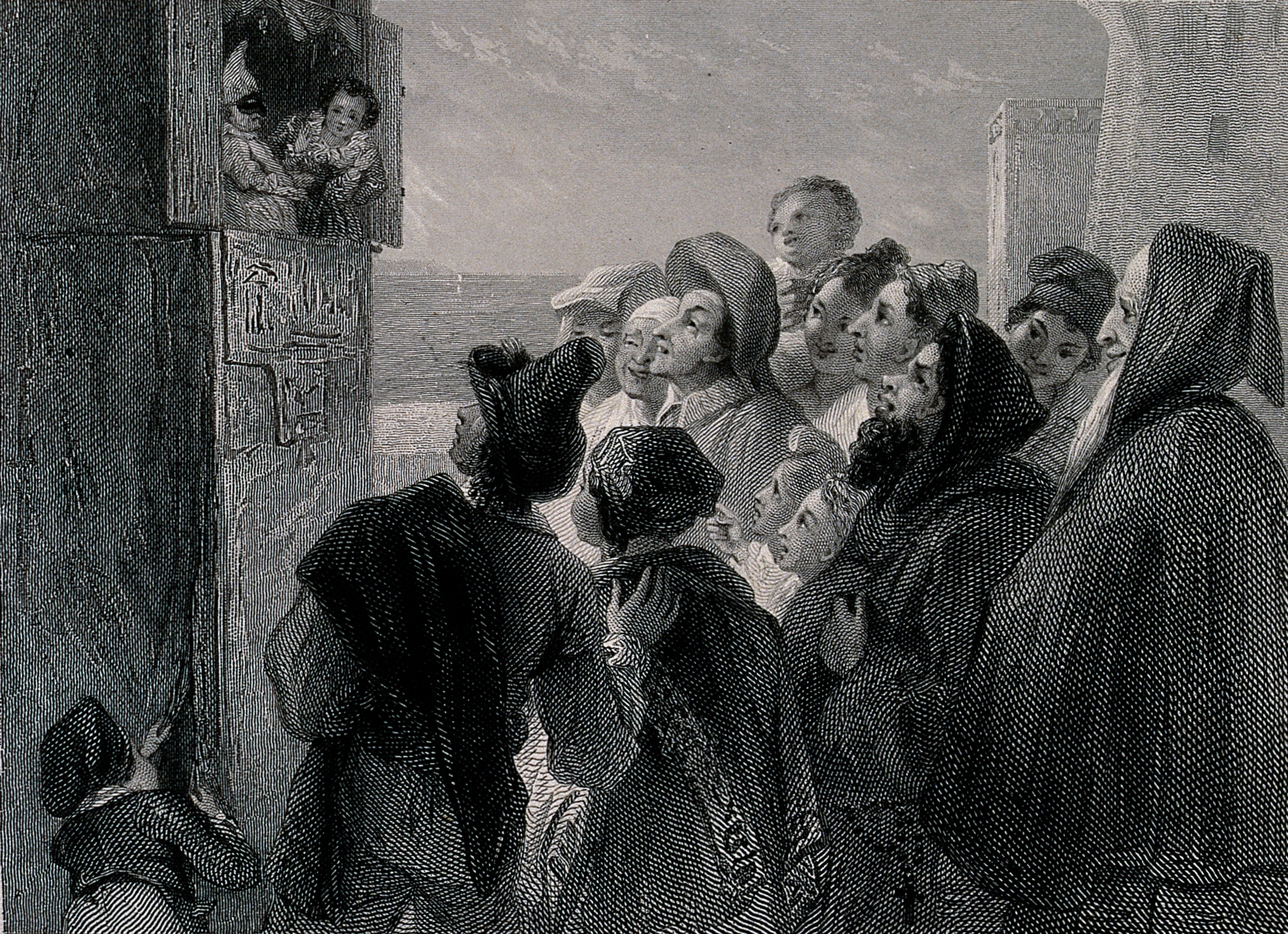 A crowd of people have gathered around a stand in the street to watch a Punch and Judy show. Engraving by J. Goodyear after T. Uwins. Iconographic Collections